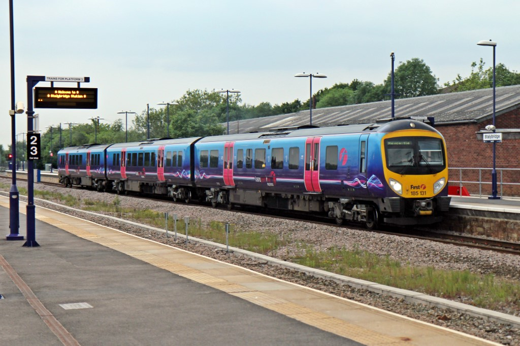 First TransPennine Class 185, 185131, platform 4, Stalybridge railway station